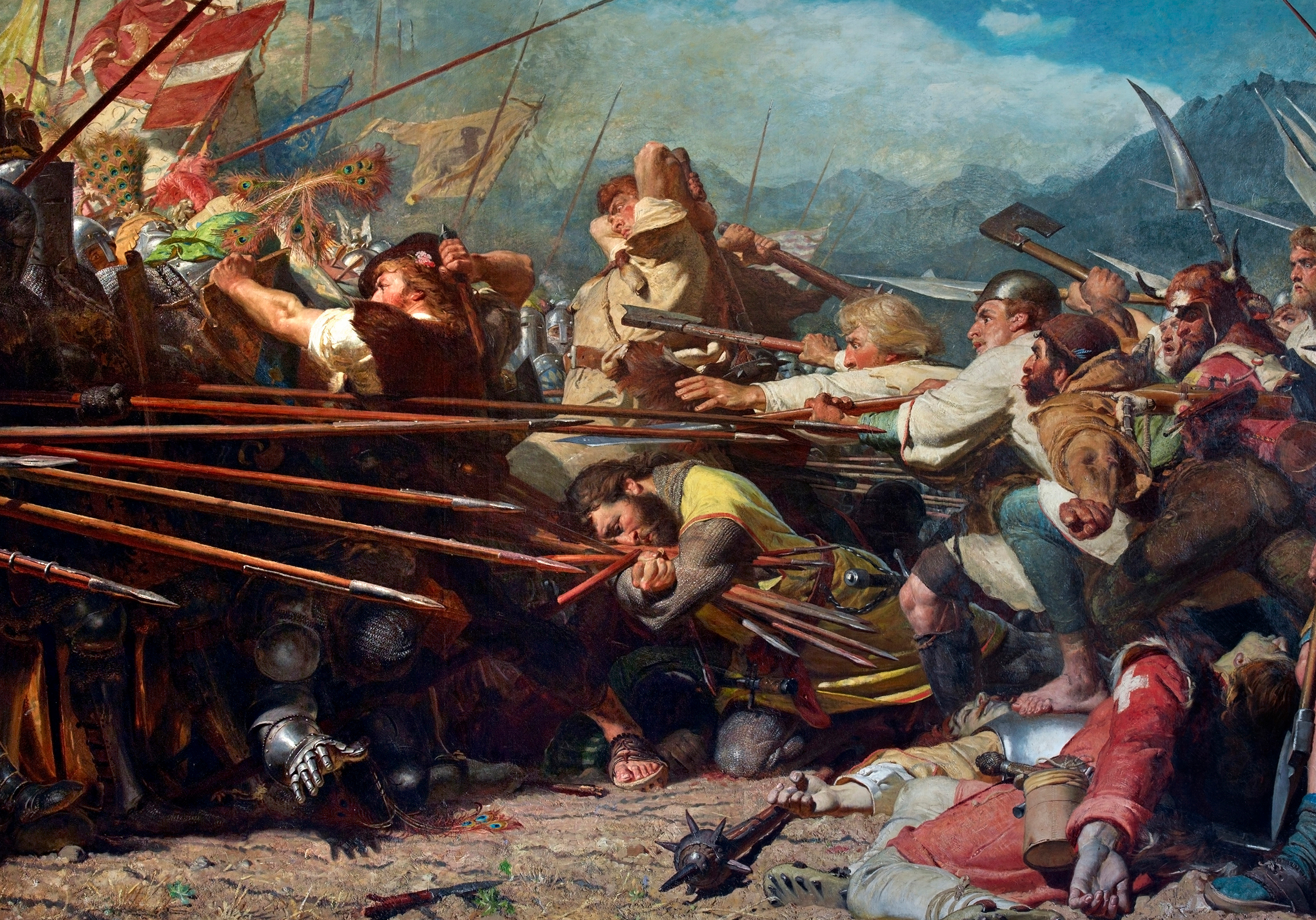 Romantic painting Winkelried at Sempach: Arnold von Winkelried's deed in the Battle of Sempach.